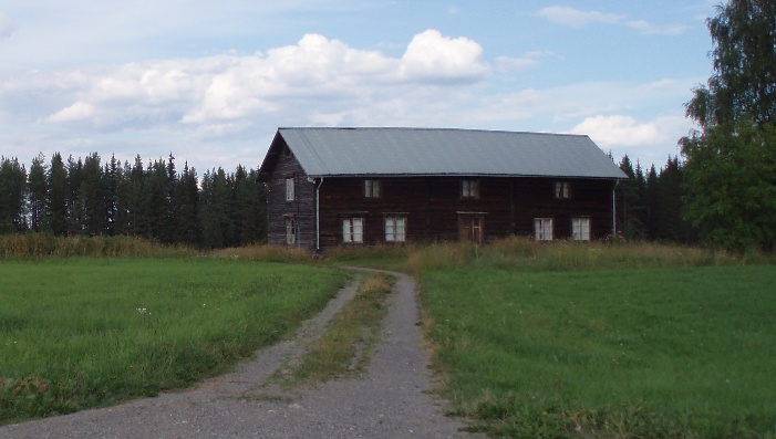 Nyland, Strömsund municipality, Sweden. Nyströms' farm in Nyland village. Photo taken in aug. 2006 by me, User:Cucumber.